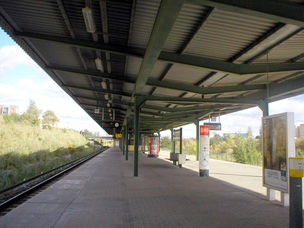 the underground station Louis-Lewin-Straße, line U5, of the Berlin U-Bahn, Germany